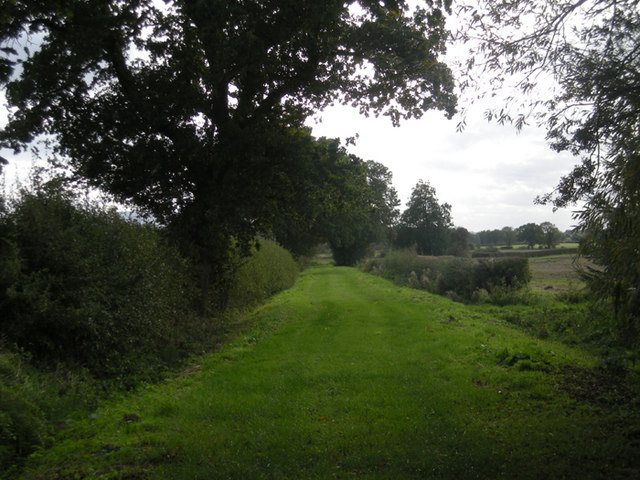 Manicured Green lane, near to Cherrington, Telford And Wrekin, Great Britain.